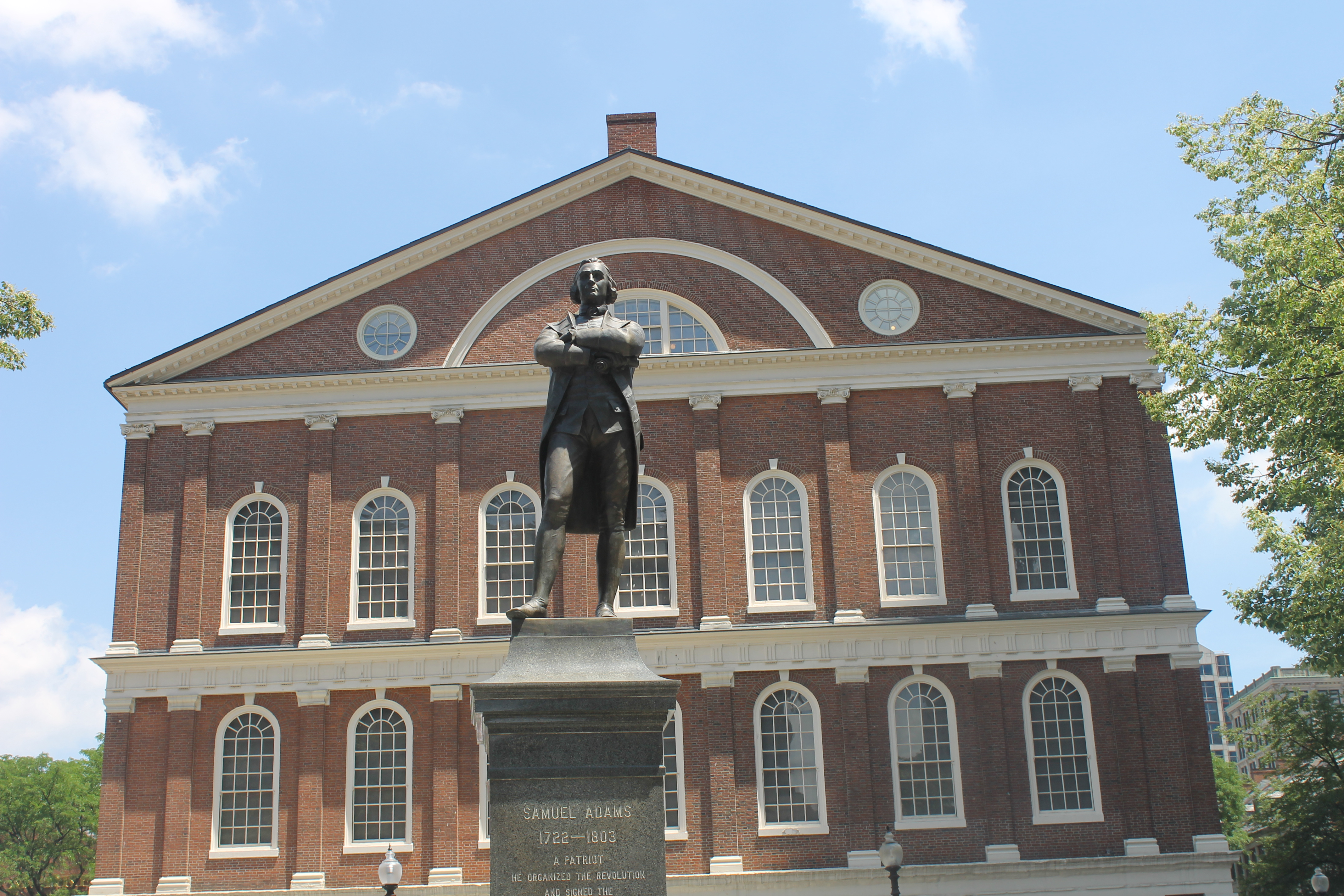 I took photo of Samuel Adams outside Faneuil Hall in Boston, with Canon camera.